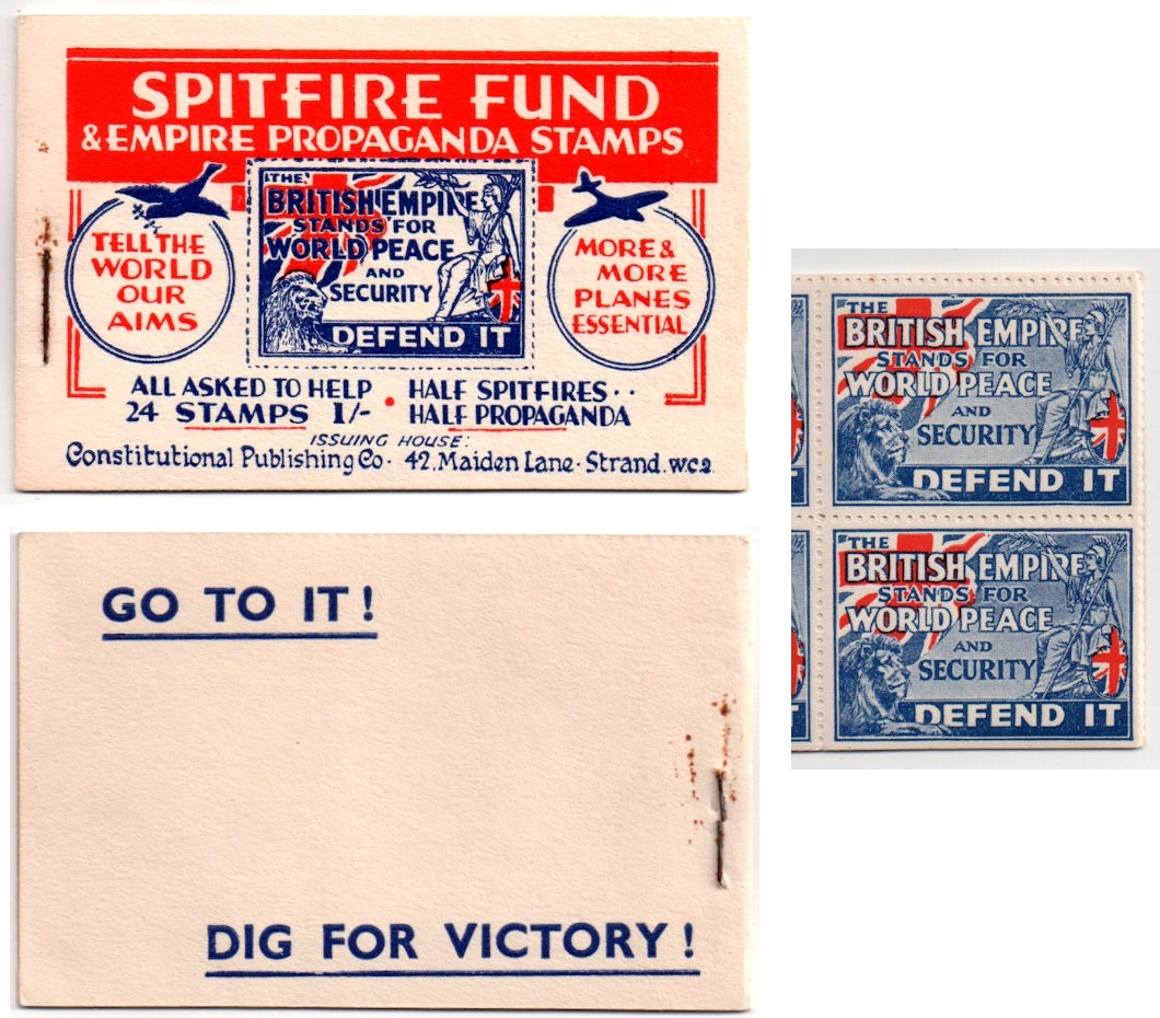 British stamp booklet to raise funds for the Spitfire Fund.